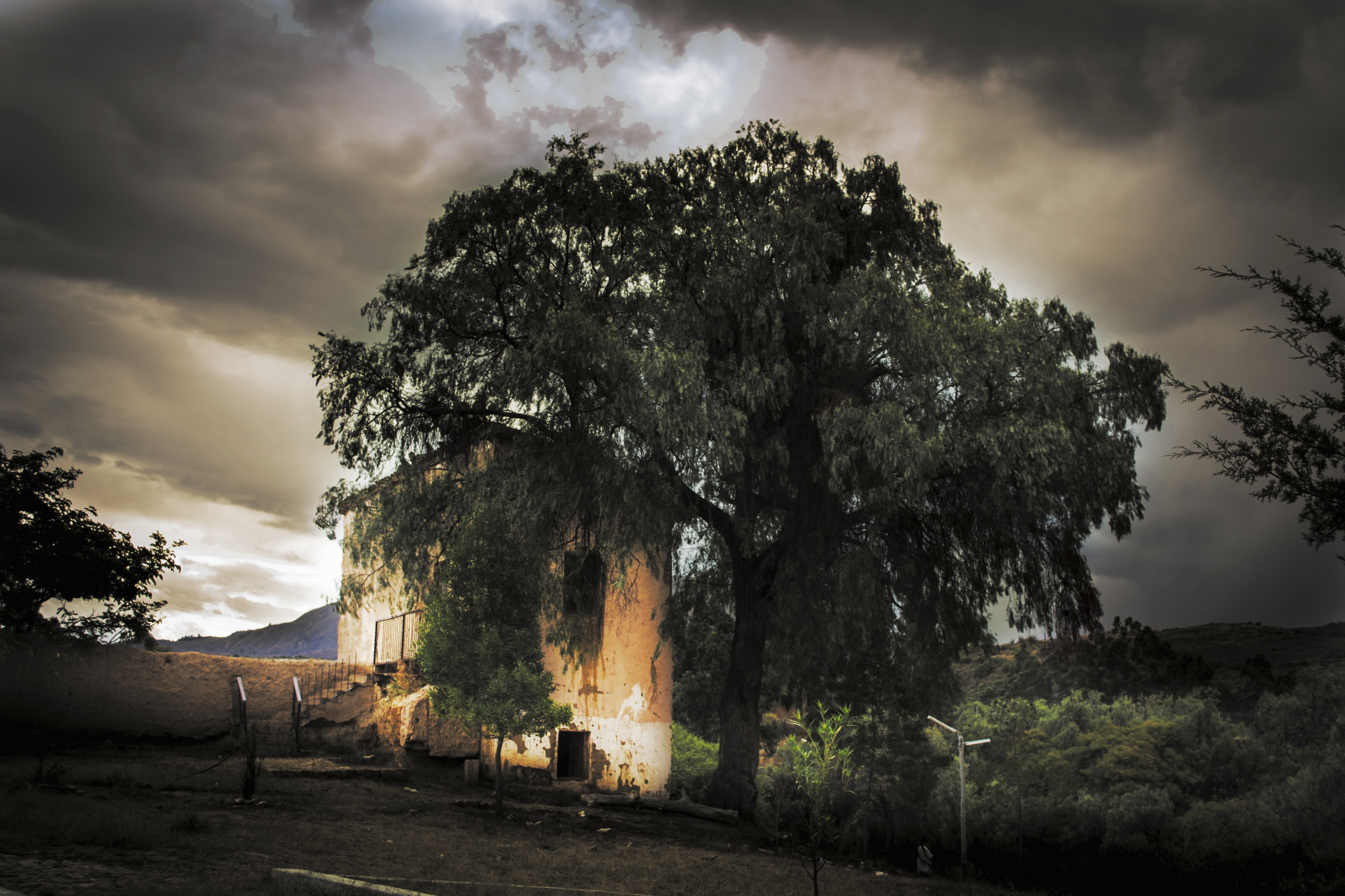 Casa de Mariano Melgarejo ubicada en el pueblo de Tarata del Departamento de Cochabamba - Bolivia